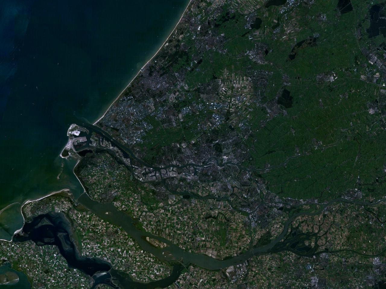 Zuid-Holland. Satellite picture.